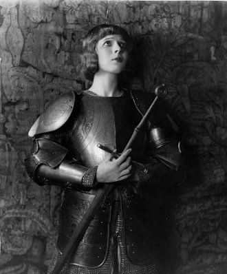 Ina Claire as Joan of Arc